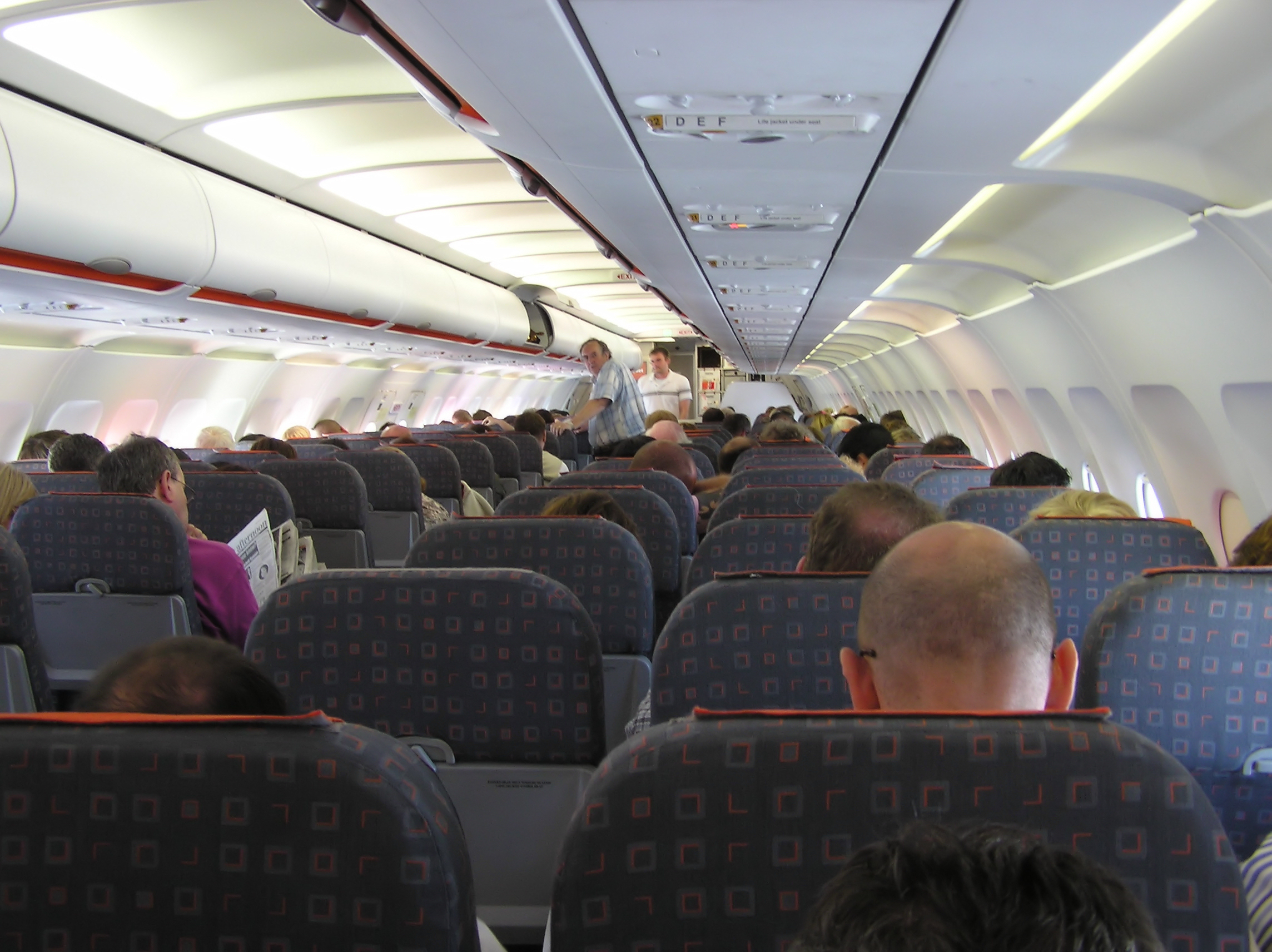 Airbus A319-100 (G-EZIR) of easyJet en route from Rome (Italy) to Bristol (England). Built 2005.